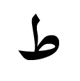 Letter ṭā' of the arabic abjad